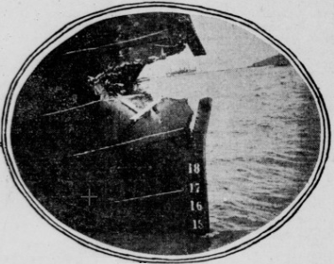 On October 3, 1900, the passenger liner SS Columbia collided with the ferryboat SS Berkeley. The Berkeley sustained minor damage, while the Columbia's bow was badly damaged.